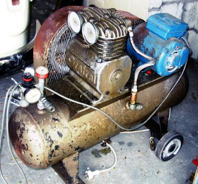 Small air compressor. The air is compressed using two pistons driven by a small electric motor (blue). Photo taken by User:Clawed.